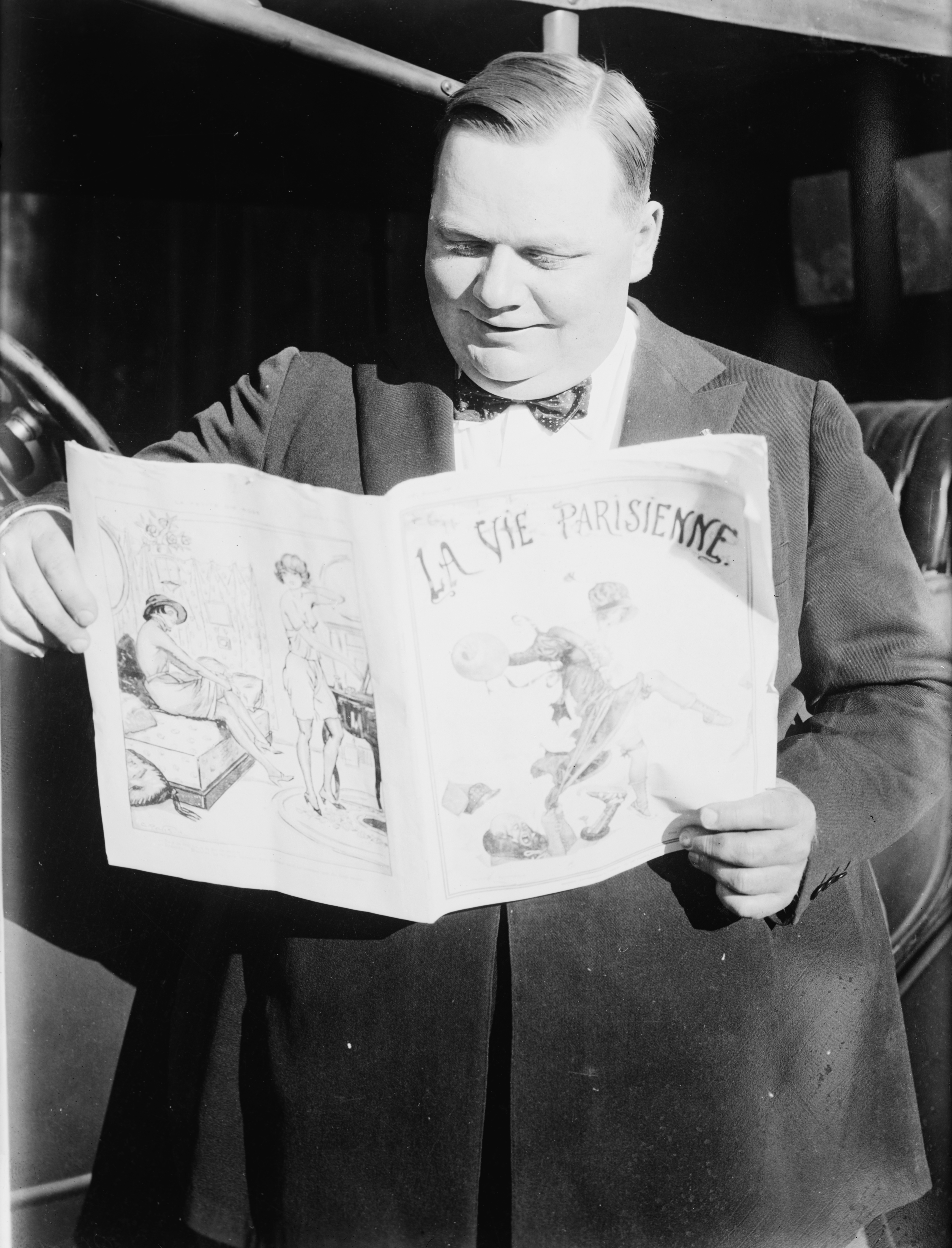 Roscoe "Fatty" Arbuckle reading a copy of "La Vie Parisienne" with saucy illustrations